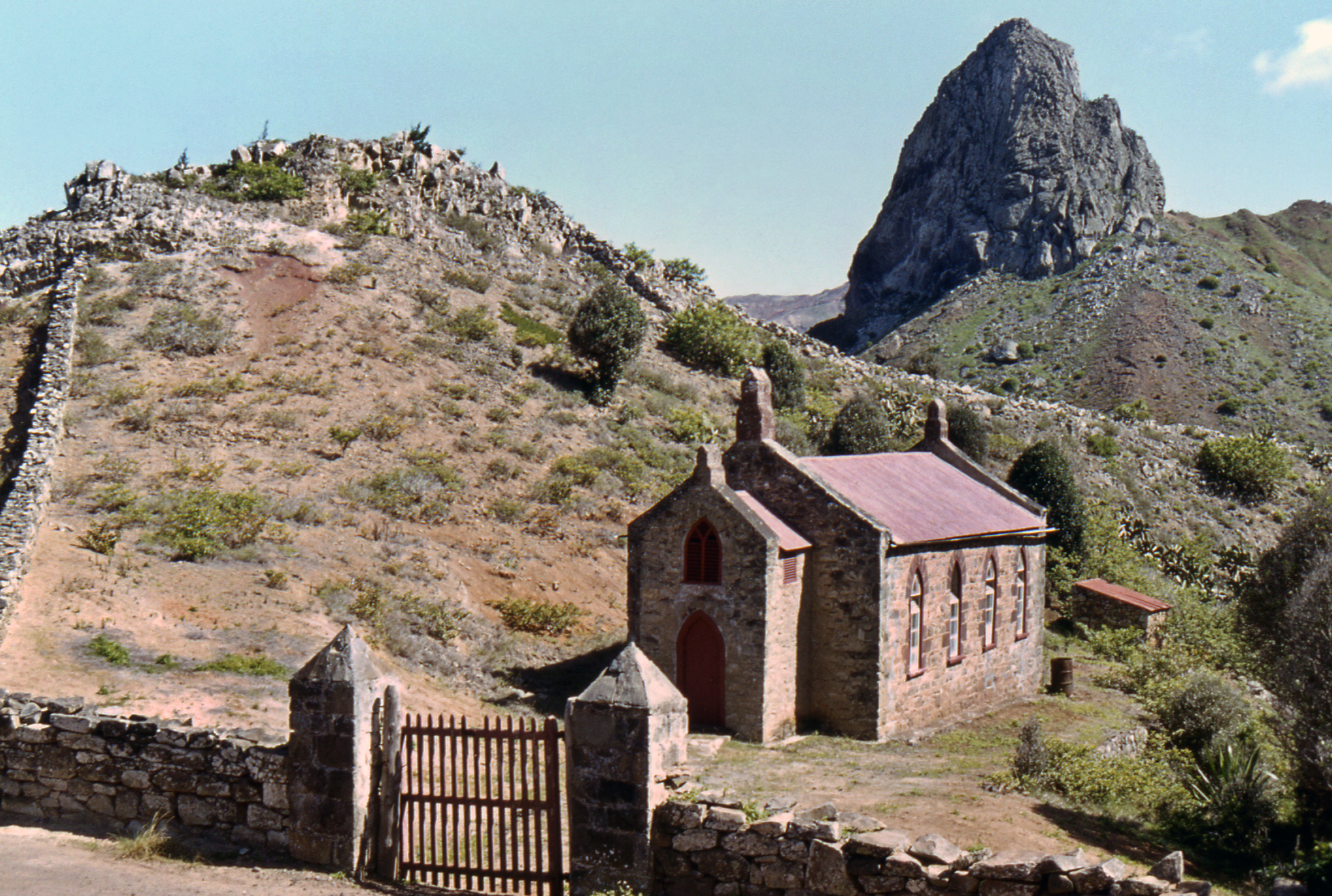 The Sandy Bay Baptist Chapel, Island of St Helena. Image taken between 1982 and 1985 by Andrew Neaum.